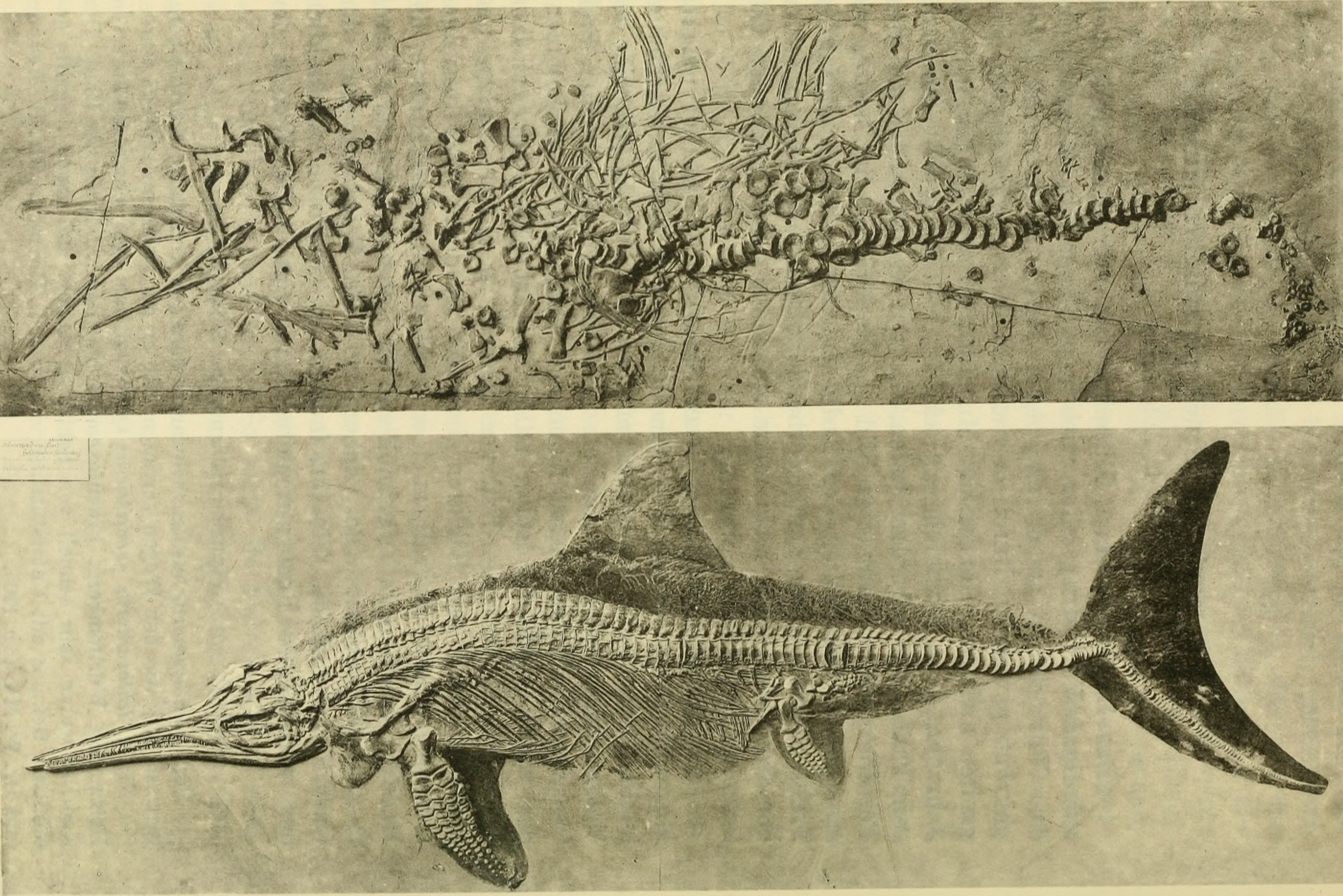 Title: Bericht der Senckenbergischen Naturforschenden Gesellschaft in Frankfurt am Main Year: 1897-1921. (1890s) Authors: Senckenbergische Naturforschende Gesellschaft Subjects: Natural history Publisher: Frankfurt a. M. : Die Gesellschaft Text Appearing Before Image: 36=^ Text Appearing After Image: '